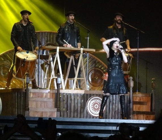 Madonna performing "Open Your Heart" during her MDNA Tour